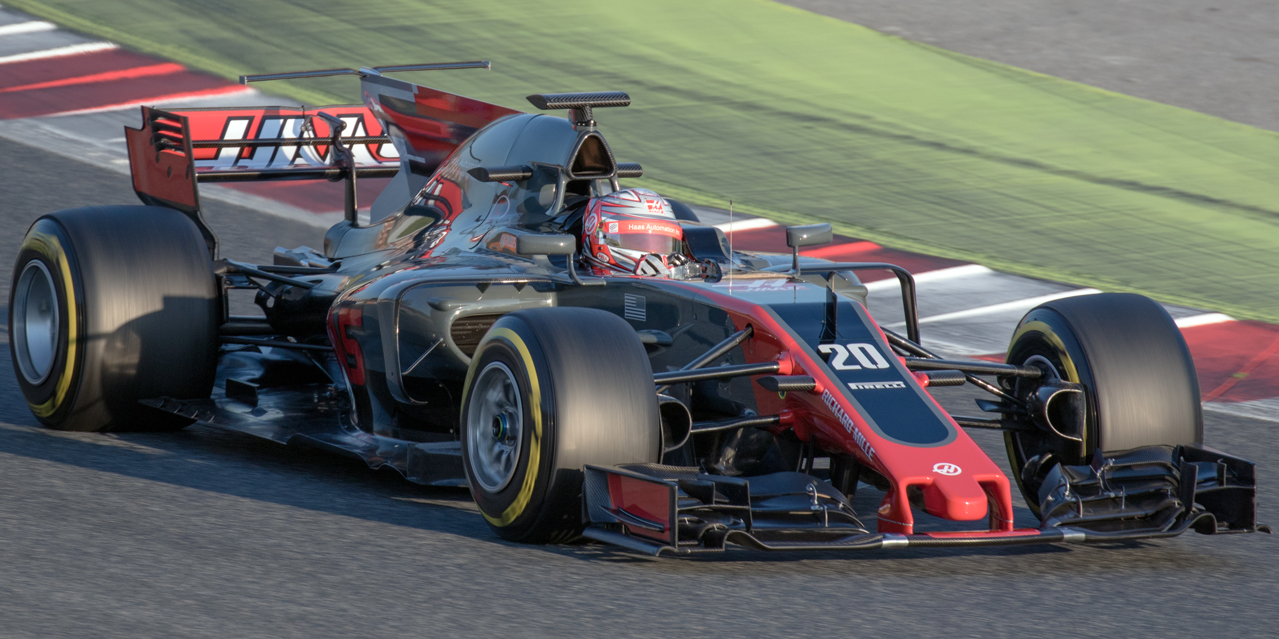 Formula One 2017 Catalonia test (27 February-2 March): Kevin Magnussen (Haas)